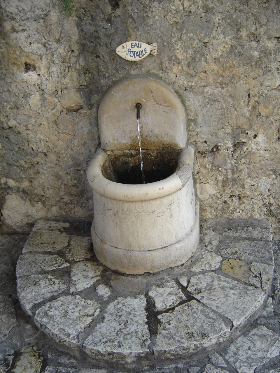 Own work.